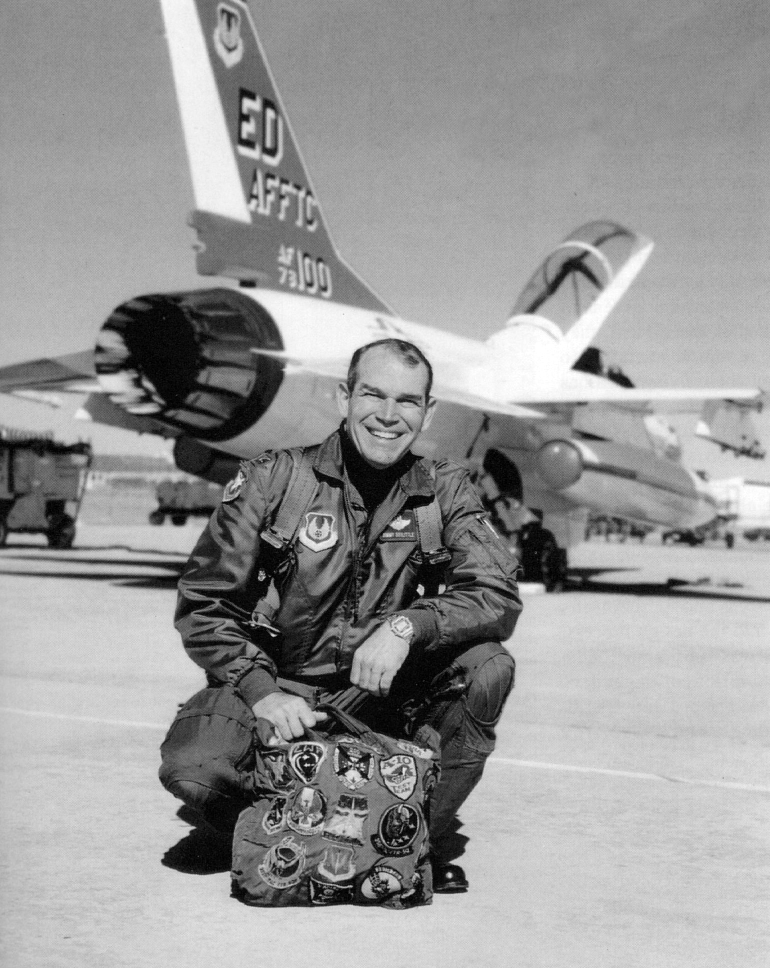 James H. Doolittle, III, Colonel, USAF. USAF Test Pilot School Commandant, 1994–96.